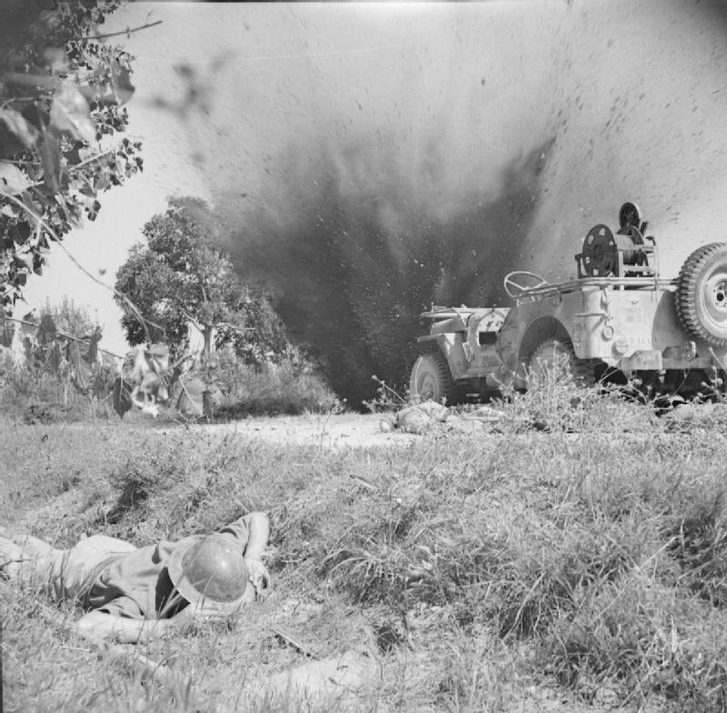 The British Army in Italy 1943 Signallers take cover in a ditch as an enemy mortar bomb explodes near their jeep, 14-16 September 1943.